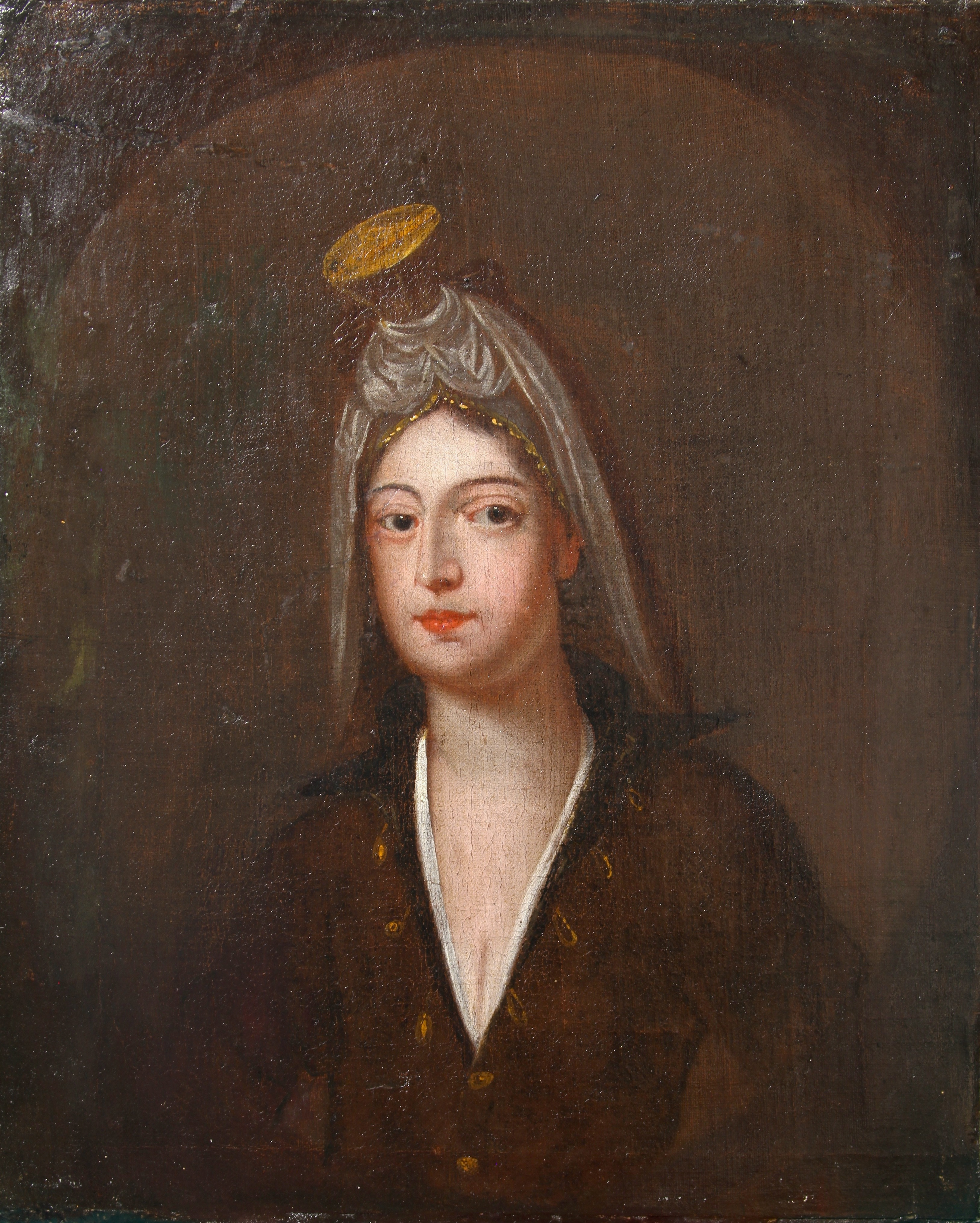 Elizabeth Theus 1742-1797, age 23, first child of Theus and Elizabeth Shaumloffel wearing a musket & powder horn crown and colonial militia outfit, ready to fight for freedom. Inspired by English Broadside "The Resolution of the Women of London to the Parliament" urging men to go to war.